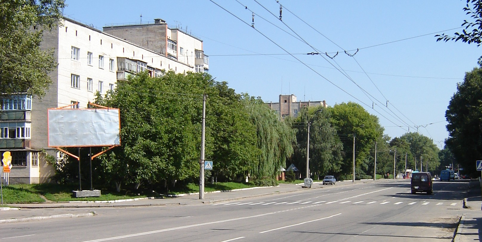 Shevchenko St. - one of the main streets of the Khmelnitsky, Ukraine. Sunny summer day view.